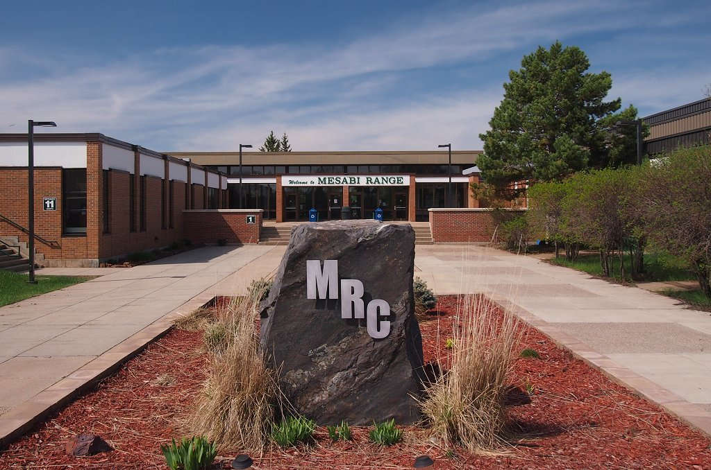 Main entrance of Mesabi Range College–Virginia Campus, 1001 Chestnut Street W, Virginia, Minnesota, USA. Viewed from the south.